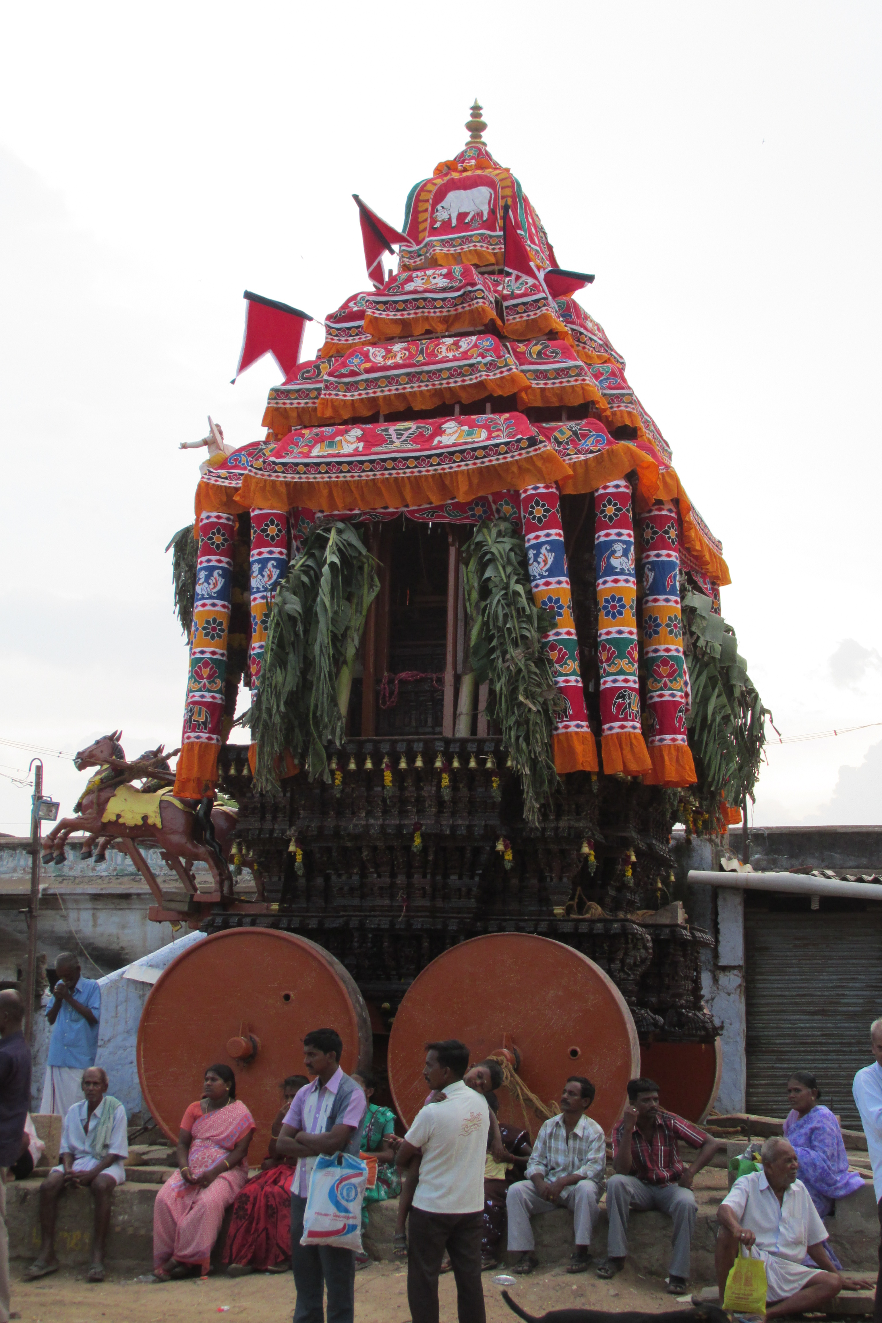 Temple car parked post run